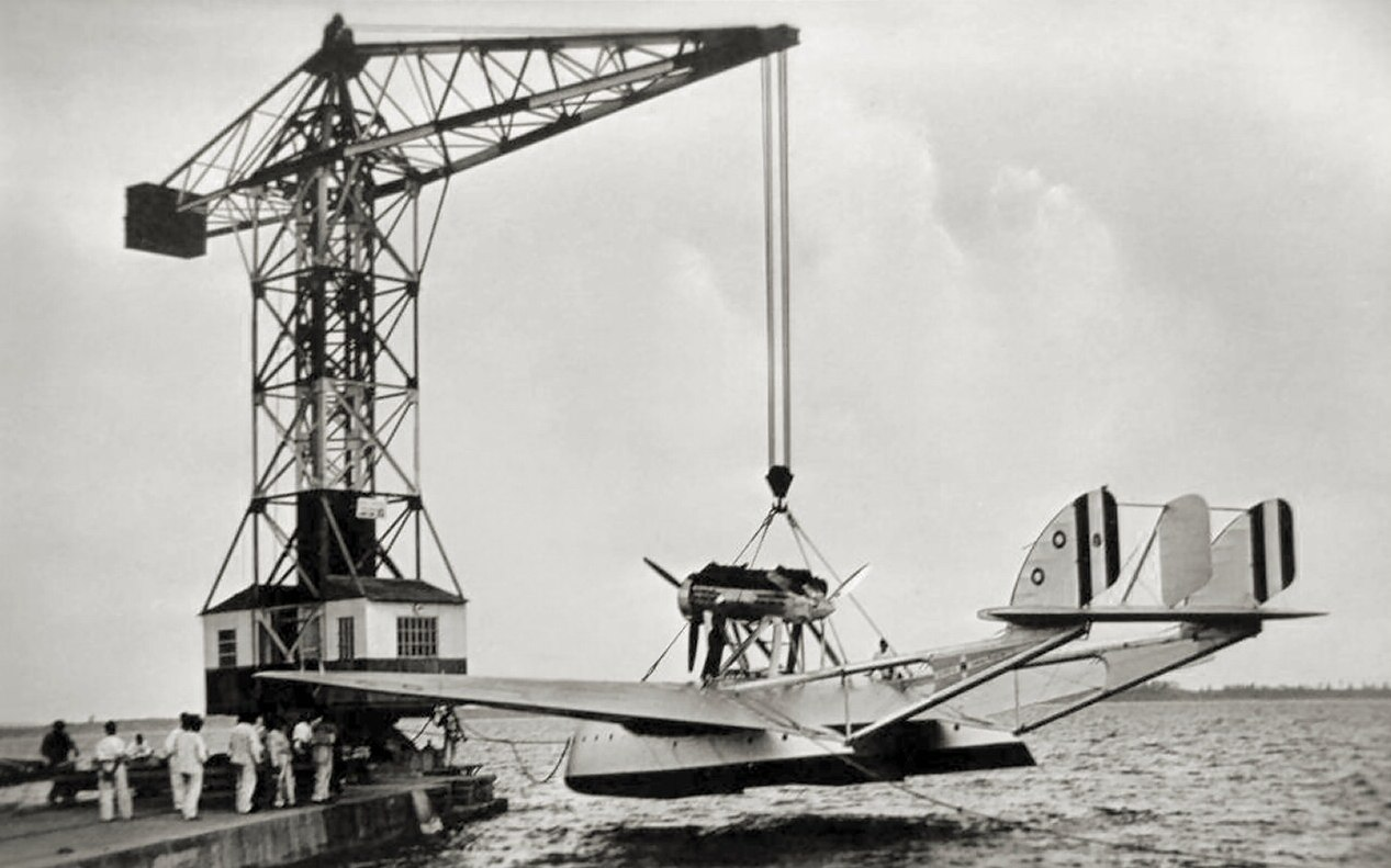 Putting to sea a Savoia Marchetti S.55 at Orbetello